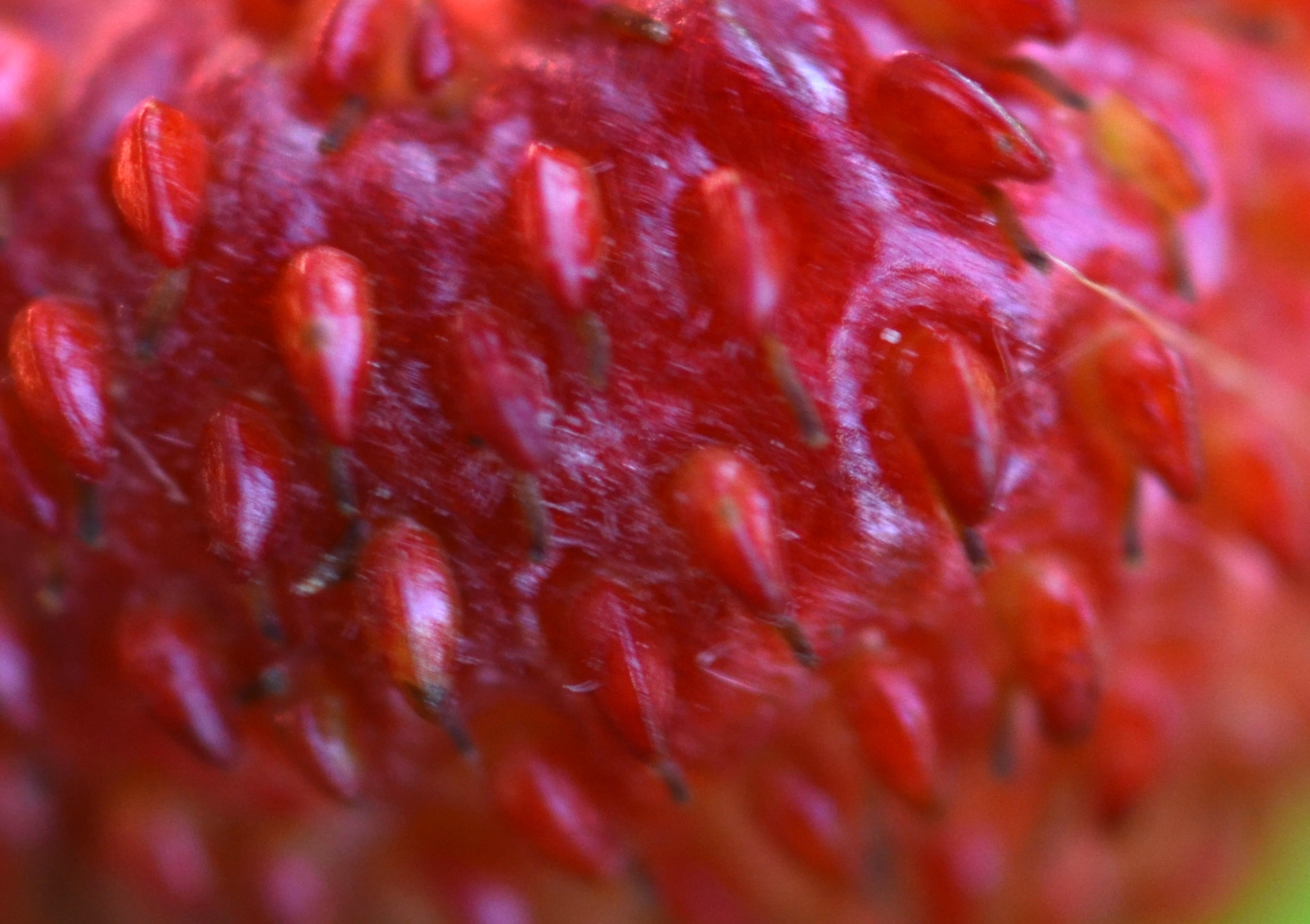 Strawberries, fruits of "Fragaria vesca" ; wild strawberry, of the family Rosaceae (Northern France).2011-05-29